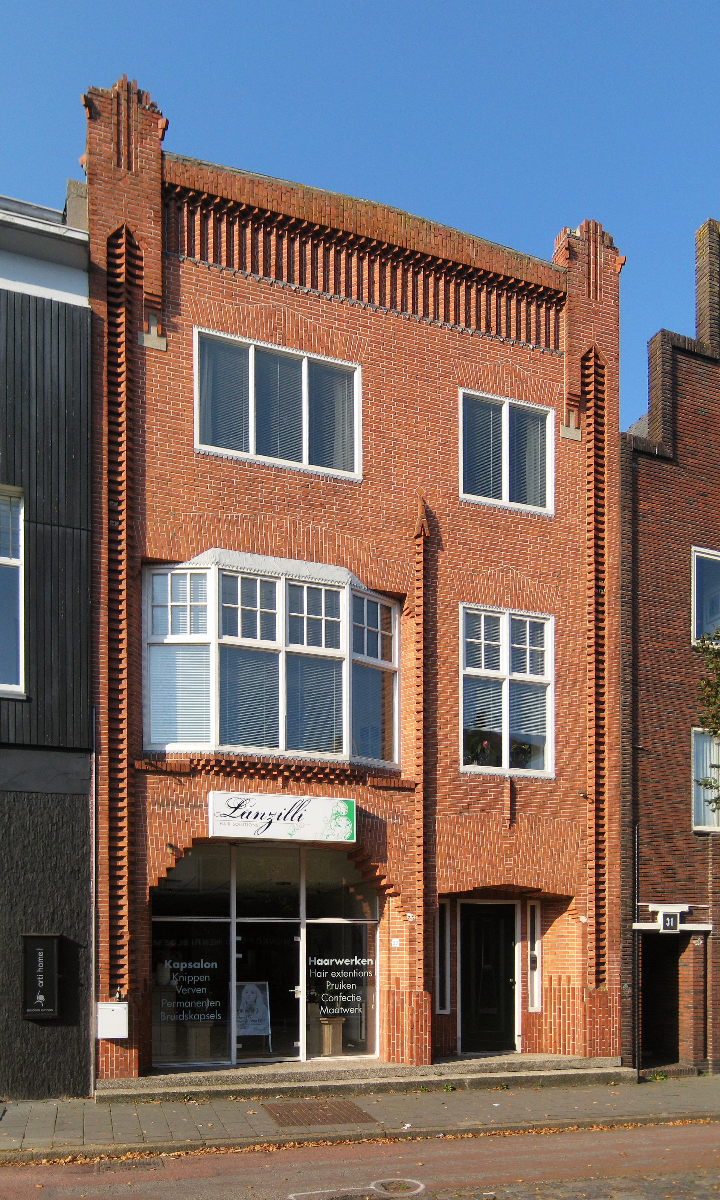 House (1917) in the Dutch city of Groningen.